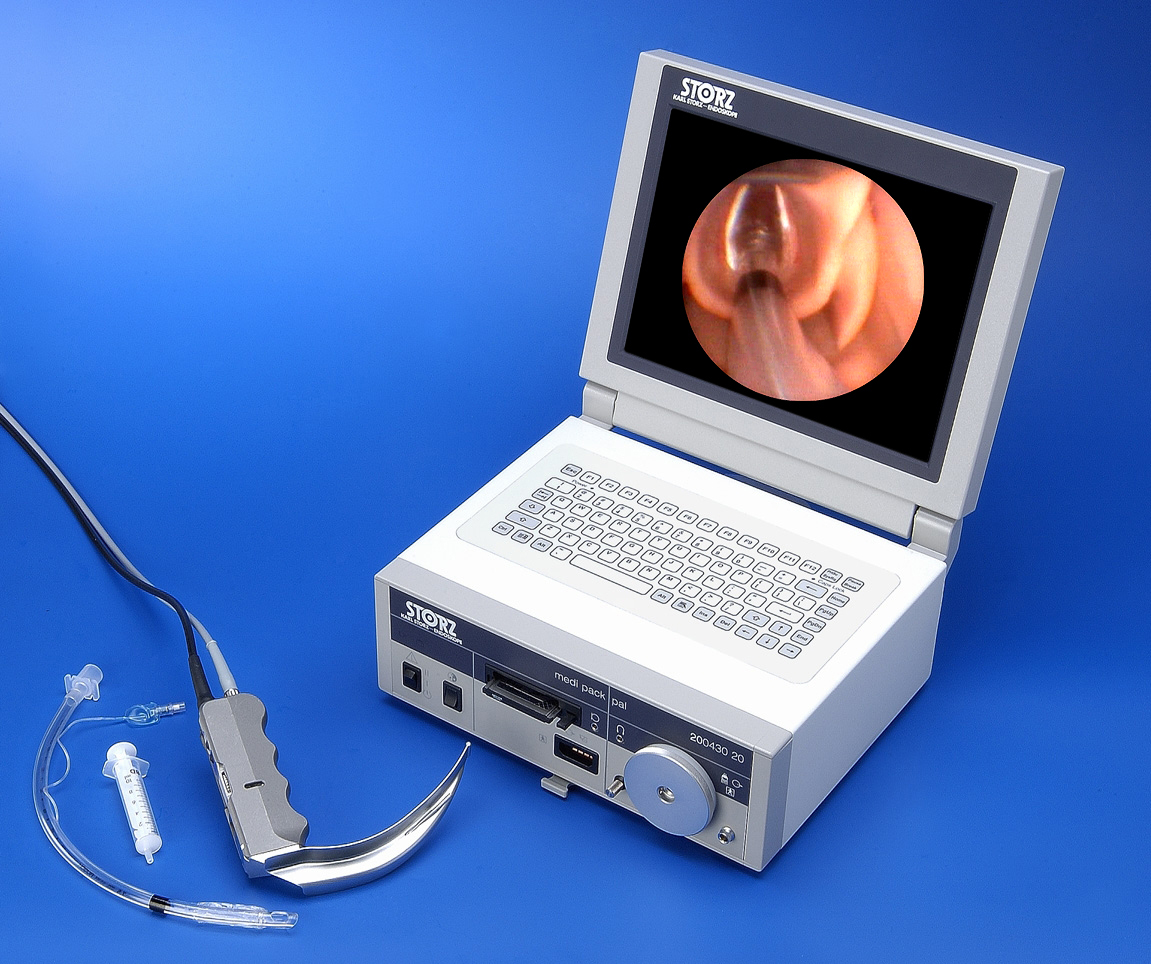 V-MAC® – In this new development, the DCI® Technology (Direct Coupled Interface) was put in, therefore many instruments could be connected via a one-chip camera head to one DCI® camera system.